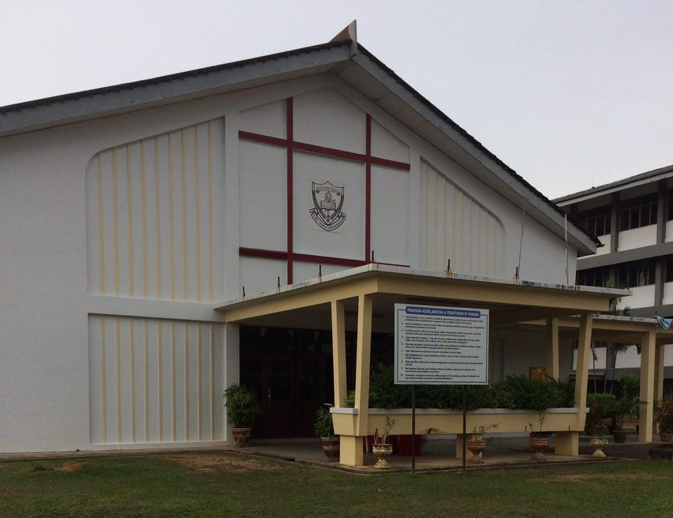 Dewan Kini